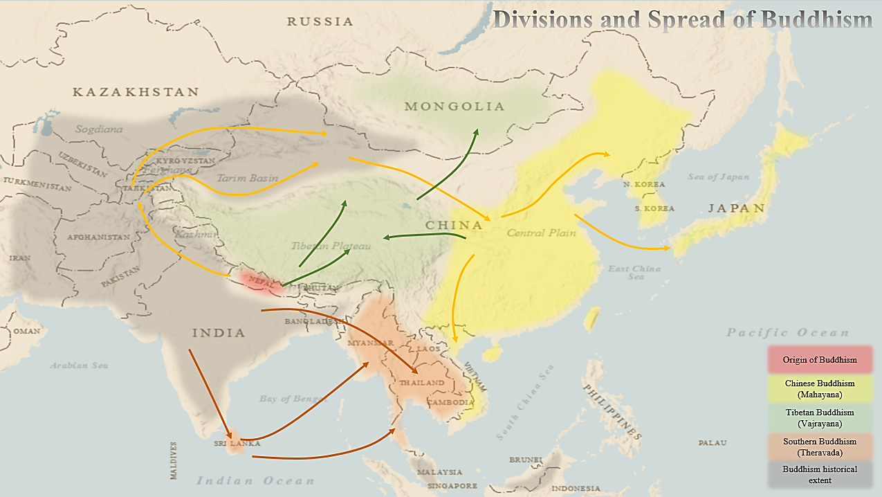 Map showing the spread and major divisions of Buddhism